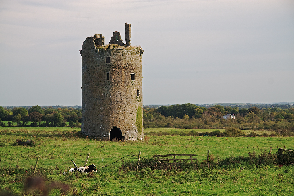 Castles of Munster: Knockagh, Tipperary This circular five storey tower house in a field off a minor road, is 3 km SW of Templemore. The chimney stack surmounts a fireplace in the fifth storey on the west side, and of an attic within the roof, only the southern gable remains.